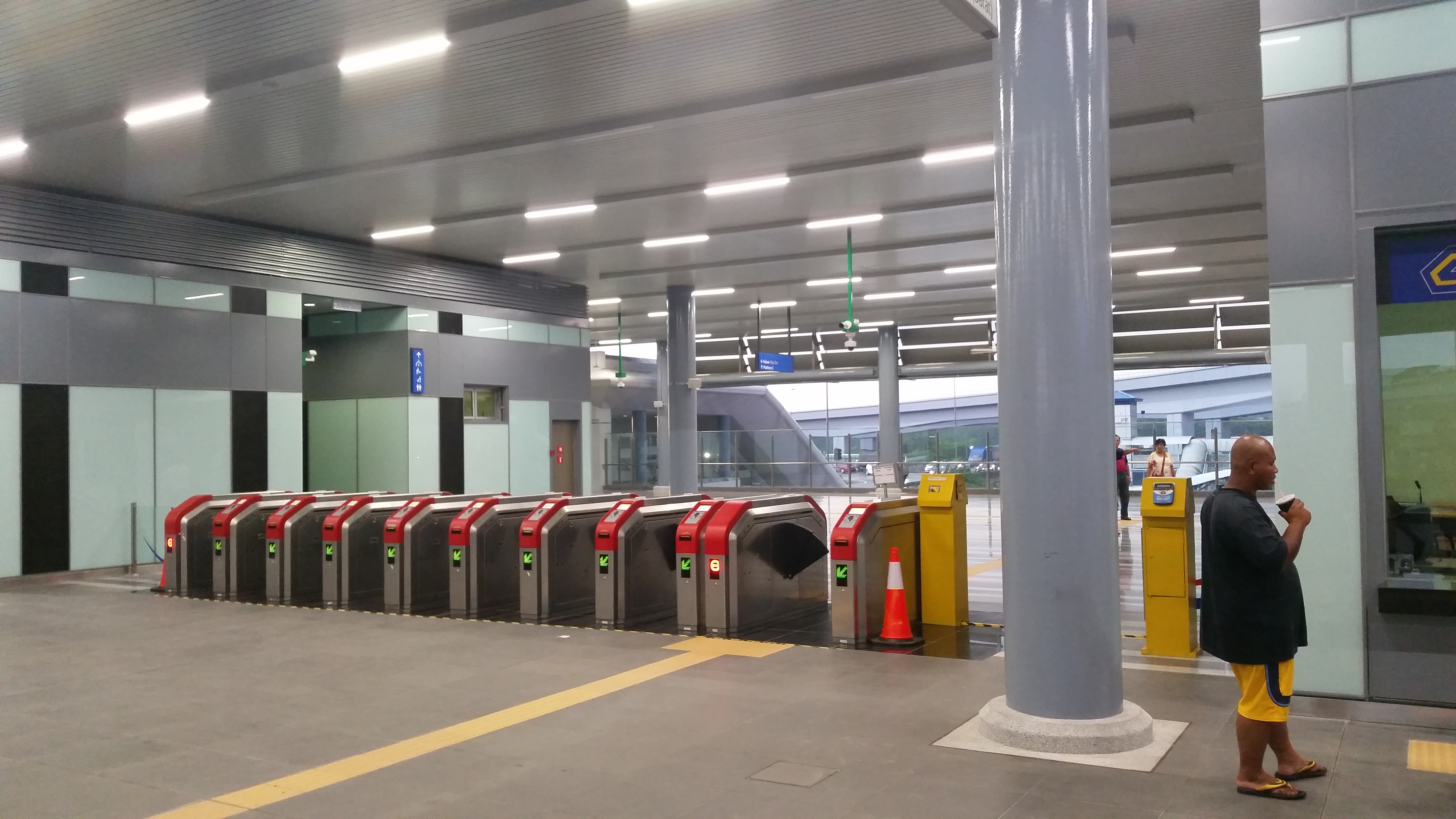 The new, refurbished KTM Komuter ticketing gates towards the KTM Komuter platforms.